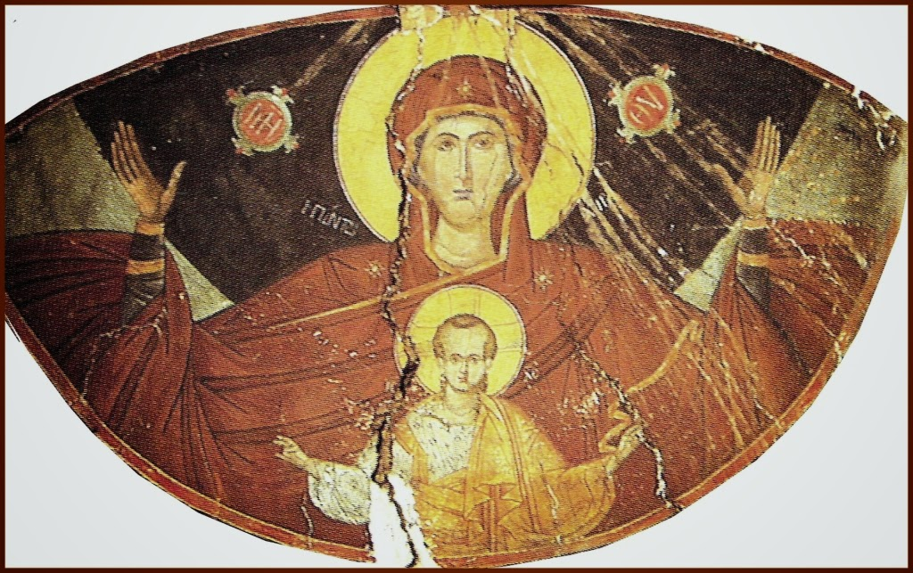 Joy for all Fresco in St. George Muzeviki Church, Kastoria, Greece